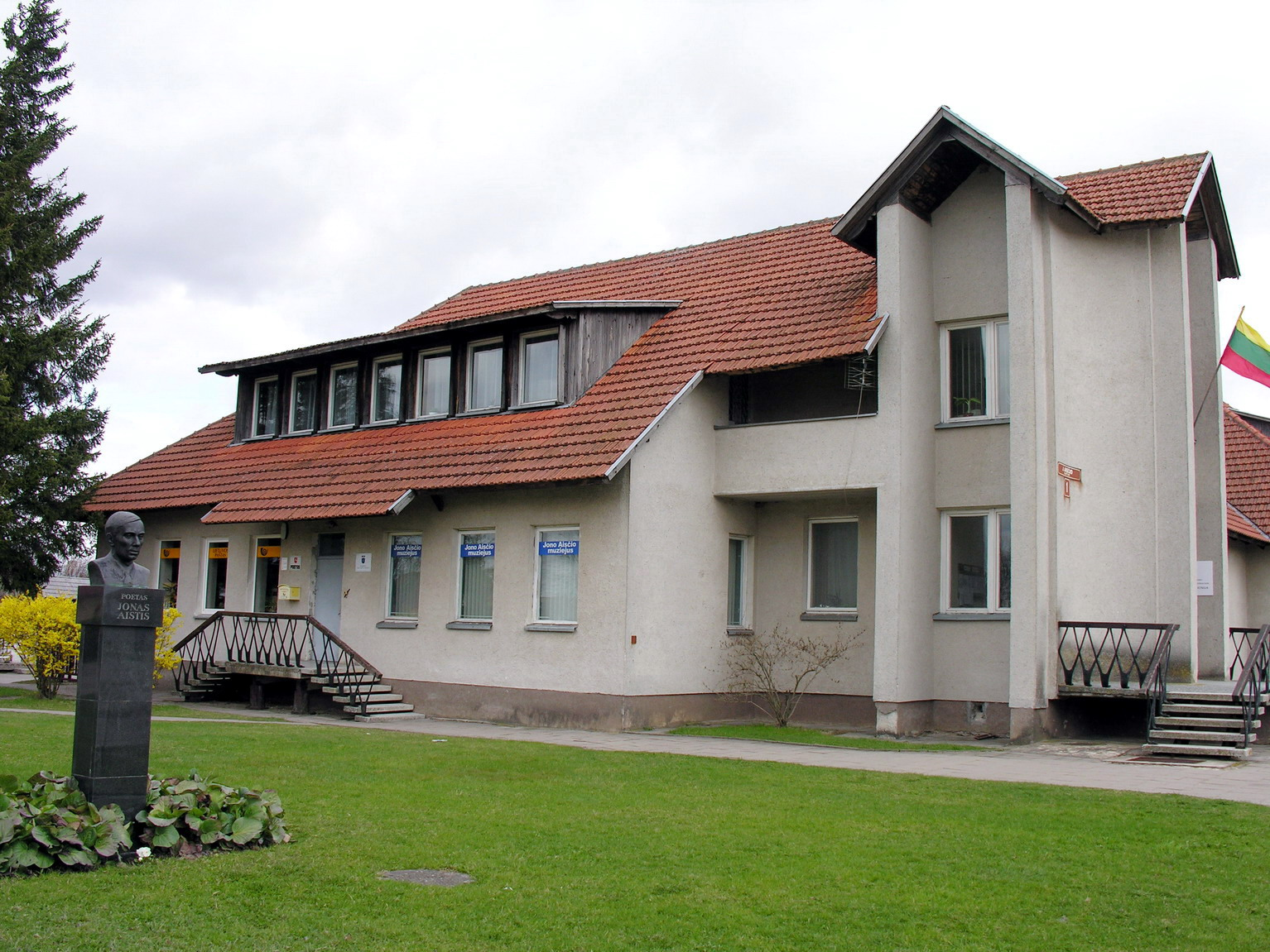 Museum of Lithuanian poet Jonas Aistis in Rumšiškės